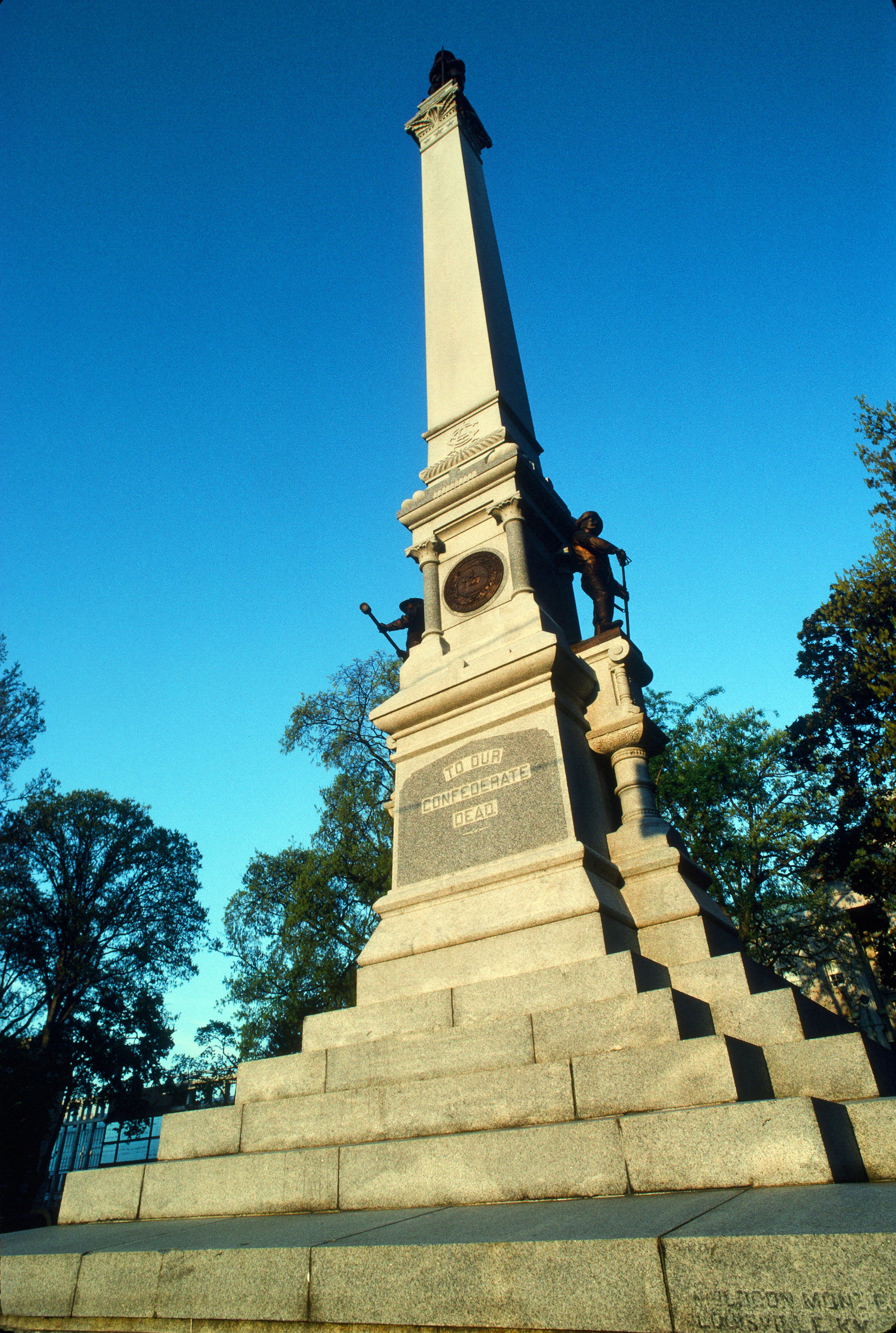 Confederate Monument on Union Square in front of the State Capitol in Raleigh, North Carolina. 1992.